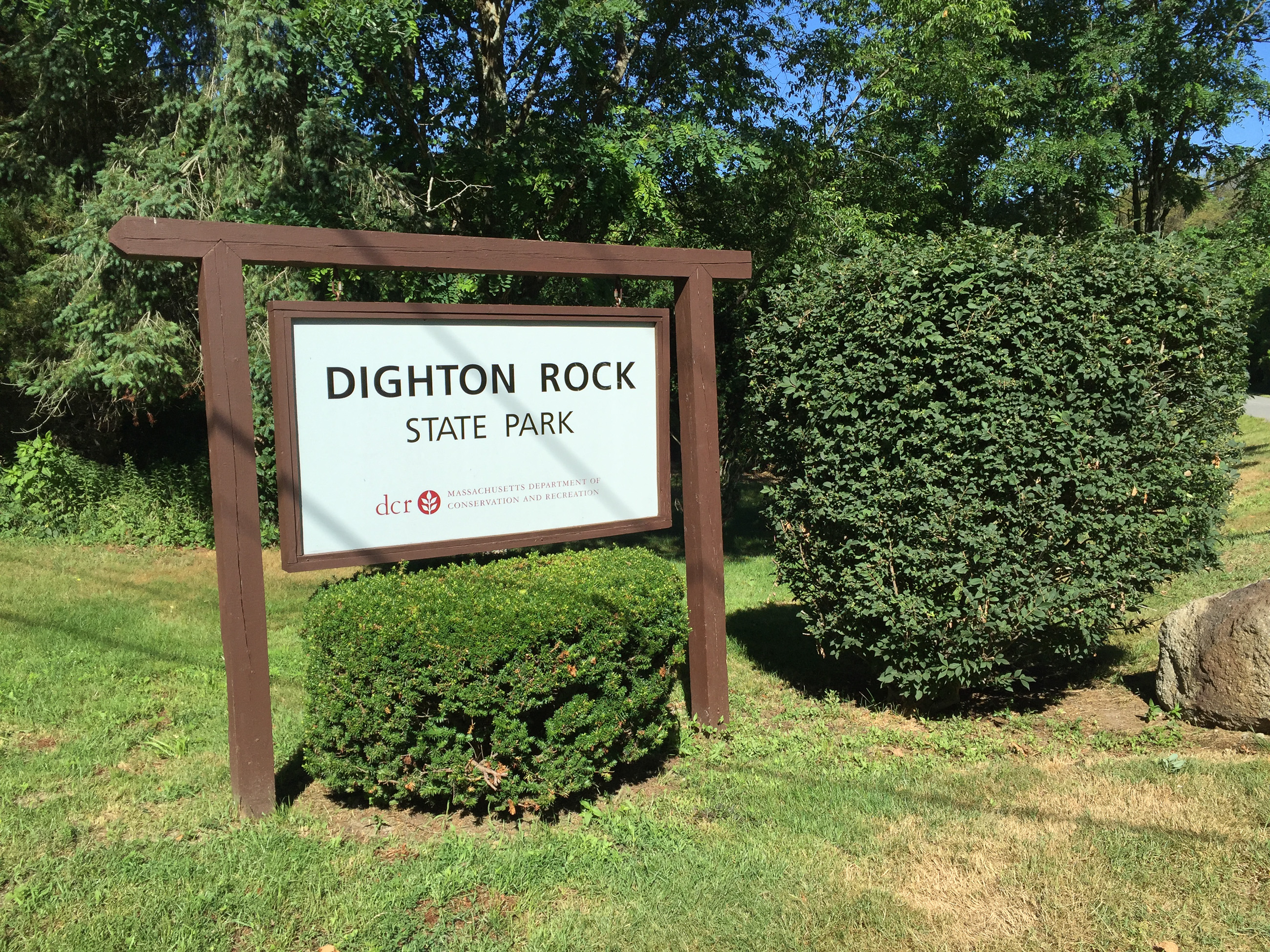 Dighton Rock State Park entrance sign